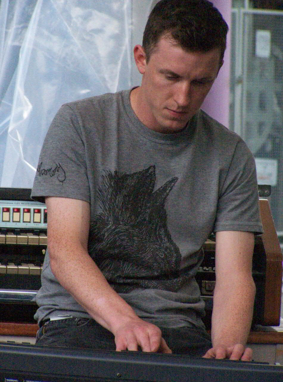 Jamie Bolland, keyboardist for Uncle John & Whitelock @ Hey You Get Off Of My Pavement (2006)